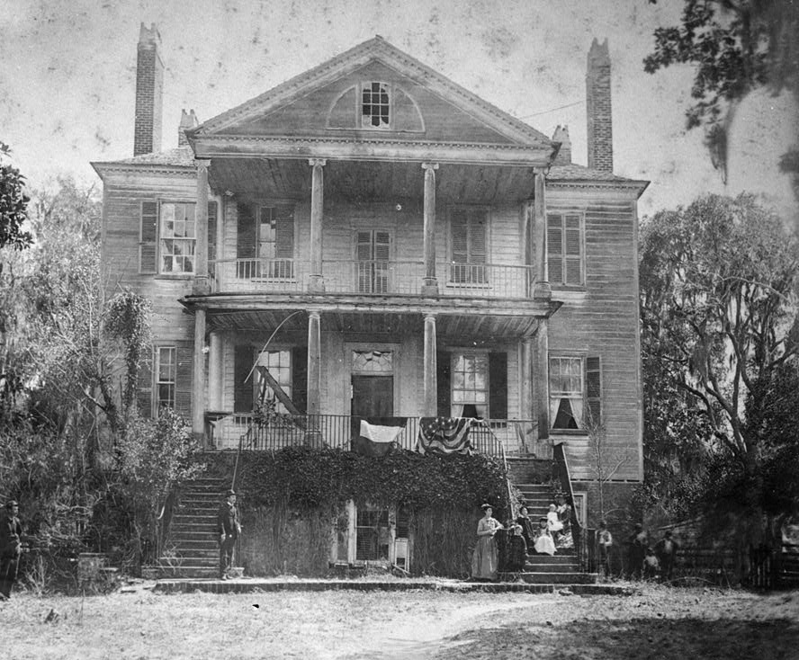 Photograph showing the front side of Arcadia Plantation, U. S. Highway 17 vicinity, Georgetown vicinity, Georgetown County, South Carolina. Historic American Buildings Survey, The Library of Congress, Washington, D. C.